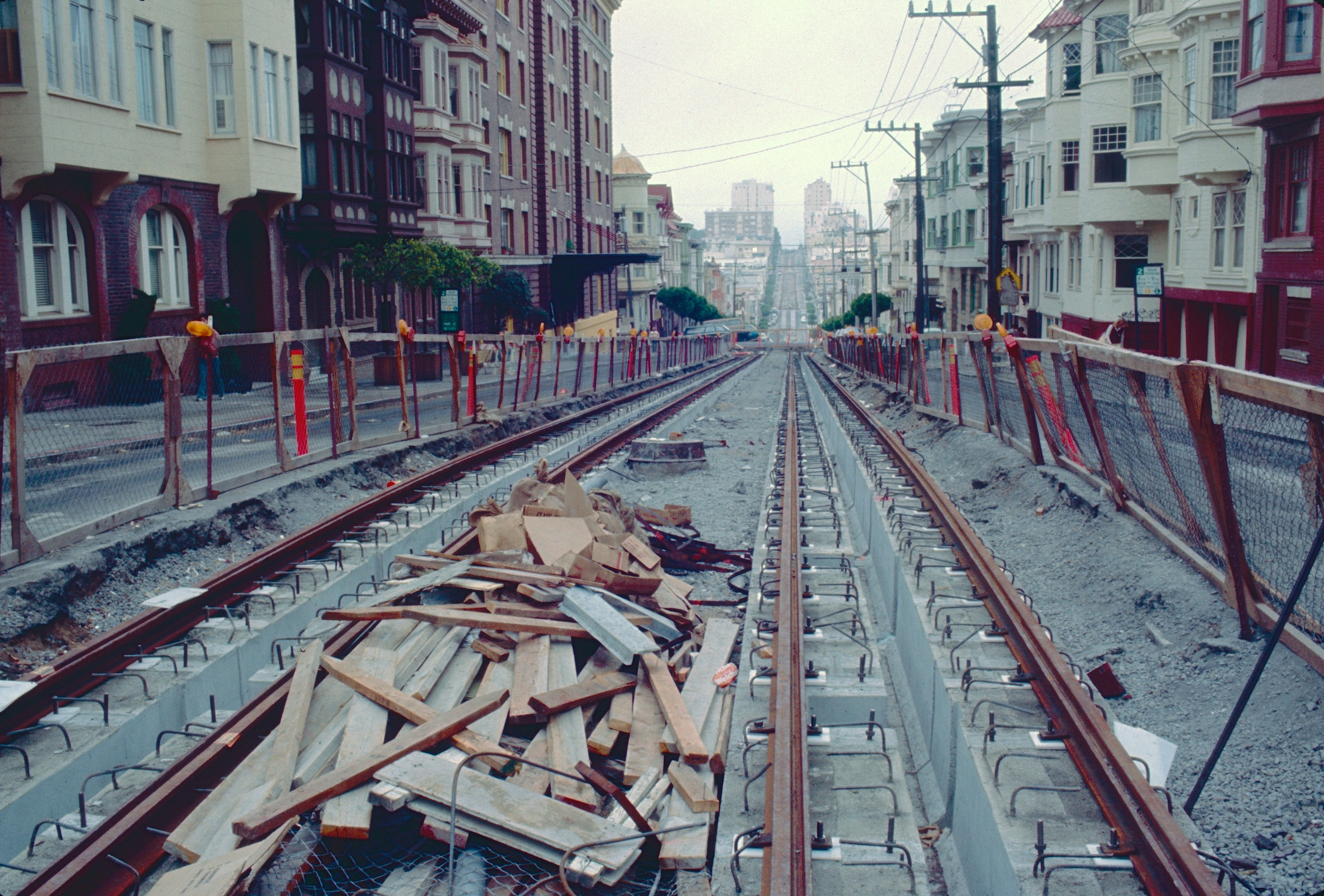 Reconstruction work under way on the cable car tracks in San Francisco in 1983, here looking north on Hyde Street from Clay Street.